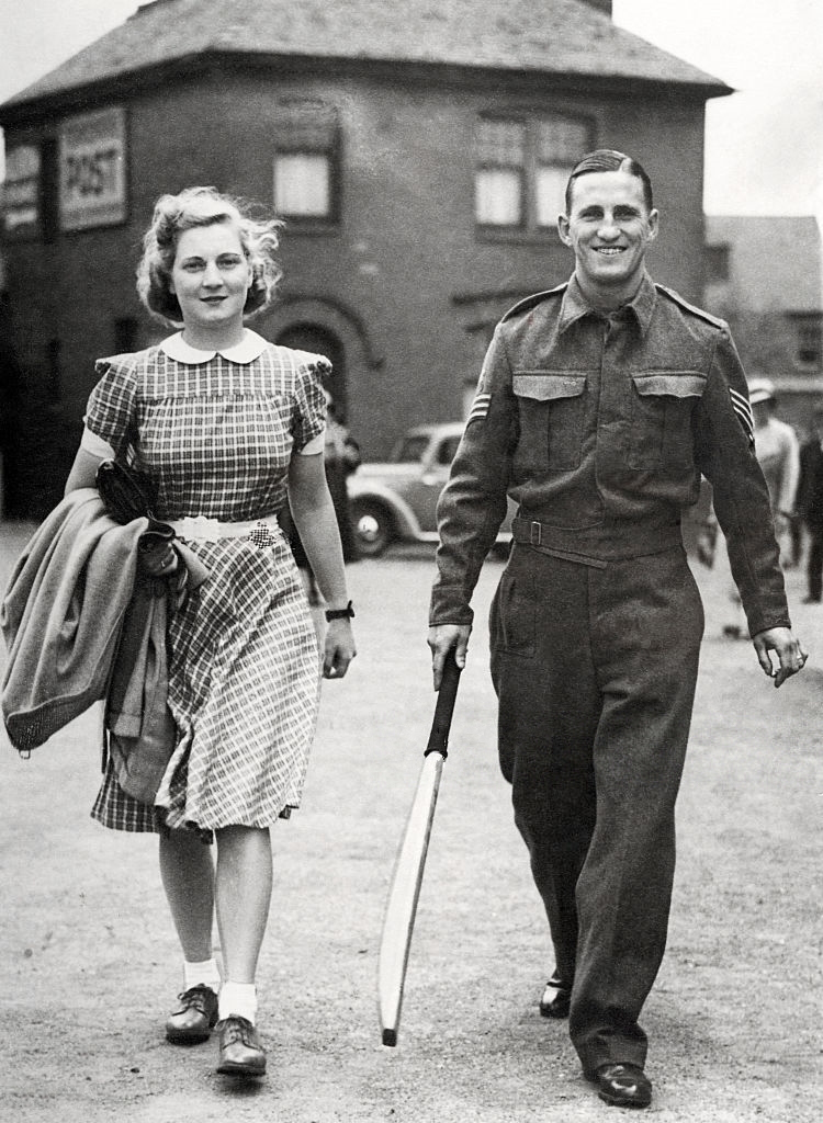 England cricketer Len Hutton with his wife Dorothy, circa 1945.